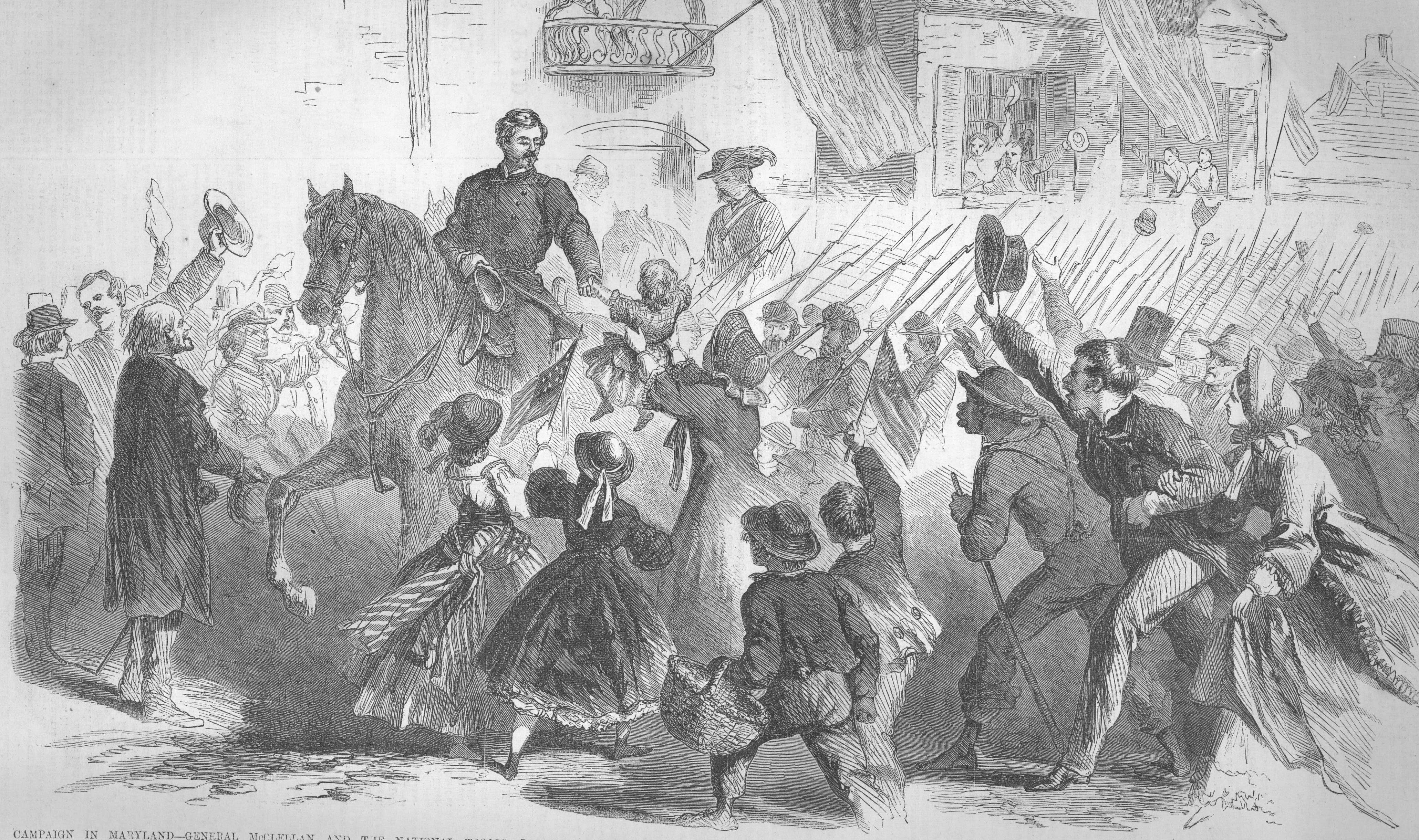 General McClellan riding through Frederick, Maryland, September 12, 1862, just before the Battle of Antietam.